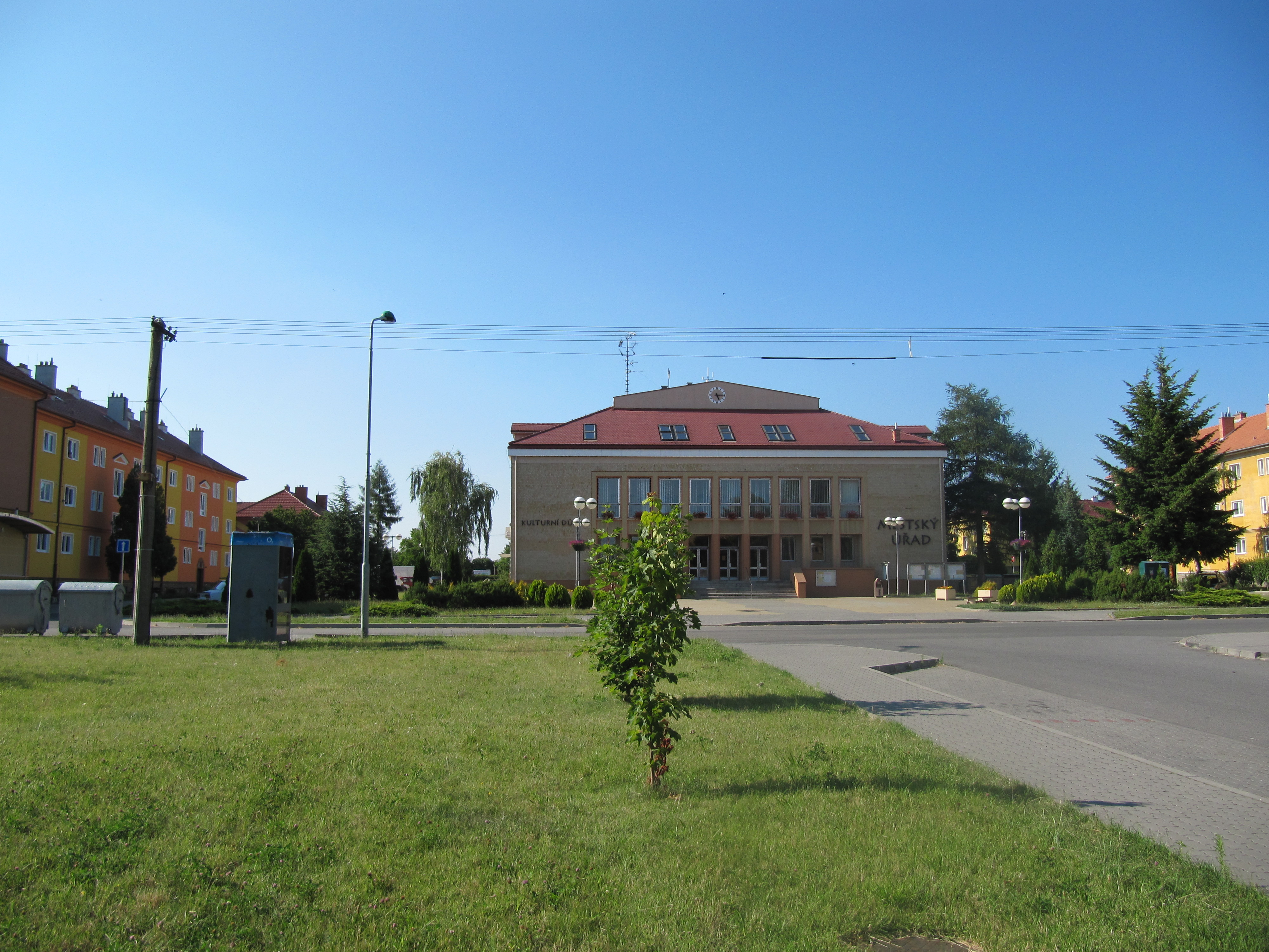 Dubňany in Hodonín District, Czech Republic. 15th April Square - the modern city center with municipal office (cultural house).